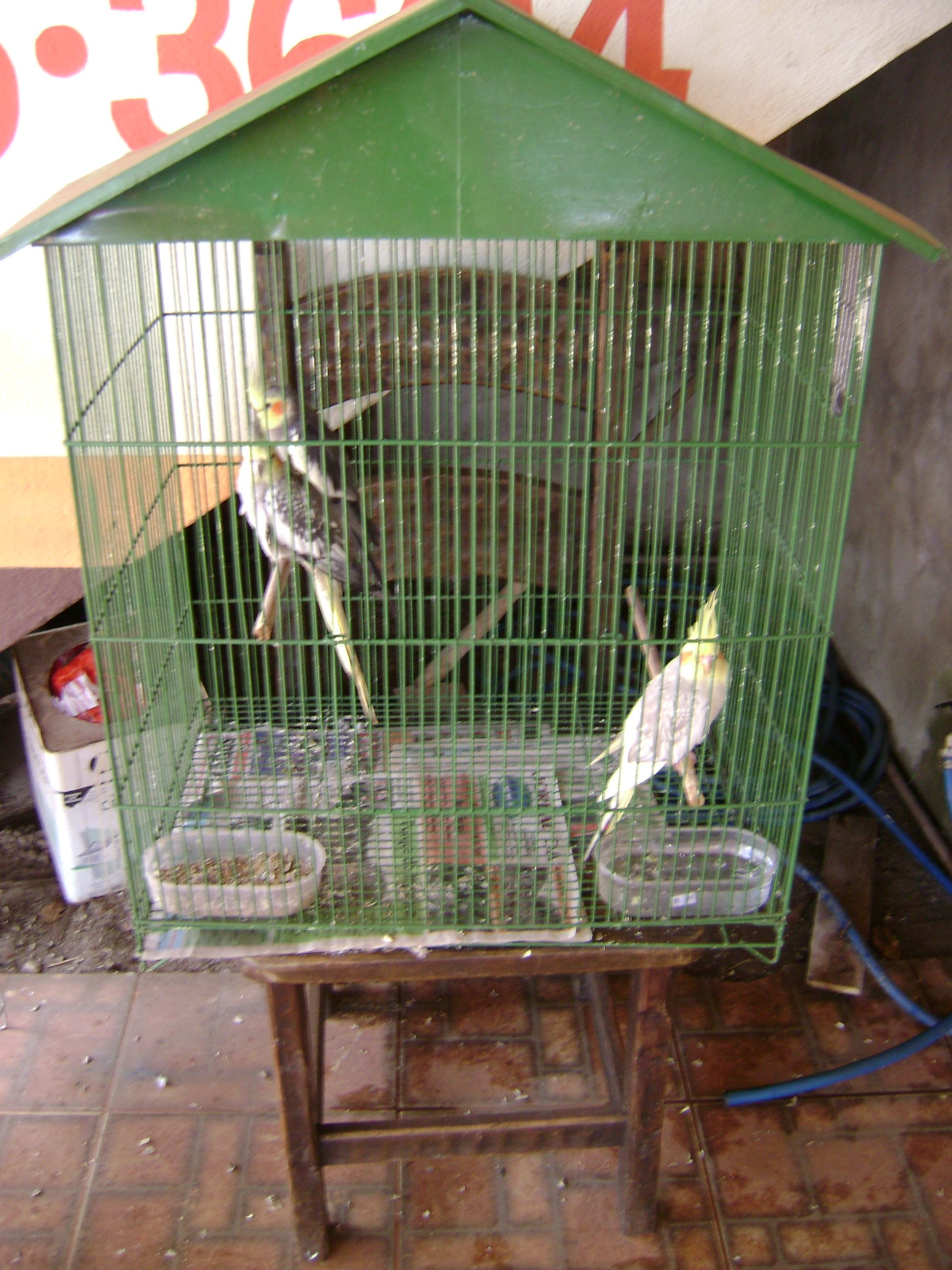 Bird cage in Casa Branca, in the municipality of Brumadinho, Minas Gerais, Brazil.